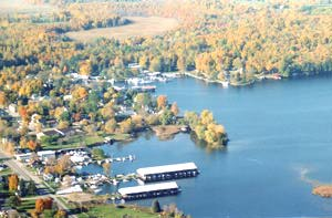 Portland from the air